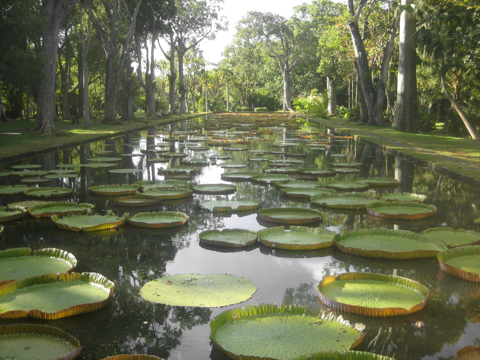 The giant water lilies (Victoria amazonica) in Pamplemousse Botanical Garden, Mauritius.